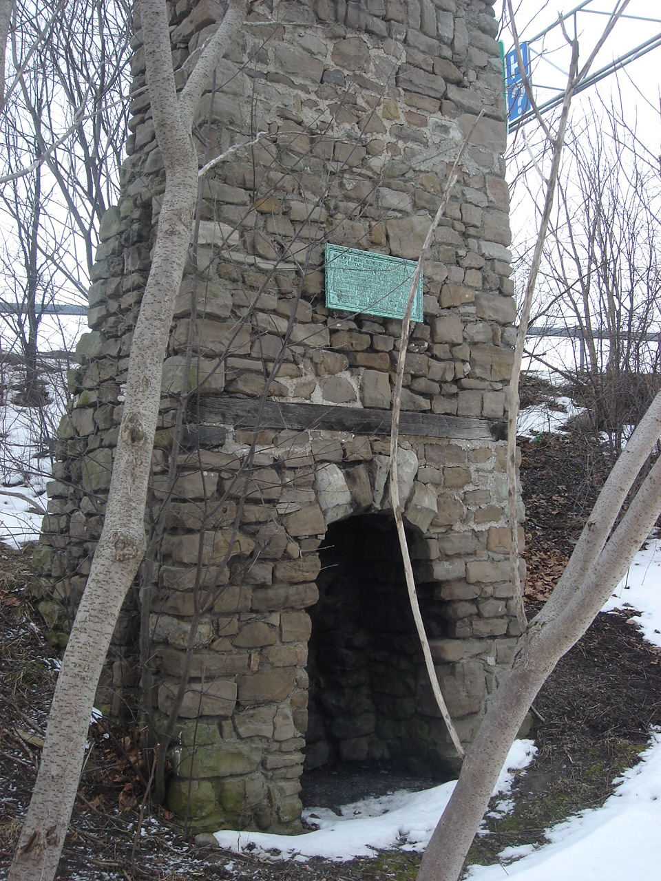 Stone Chimney build around 1750 as part of a military complex protecting the upper Niagara Portage.